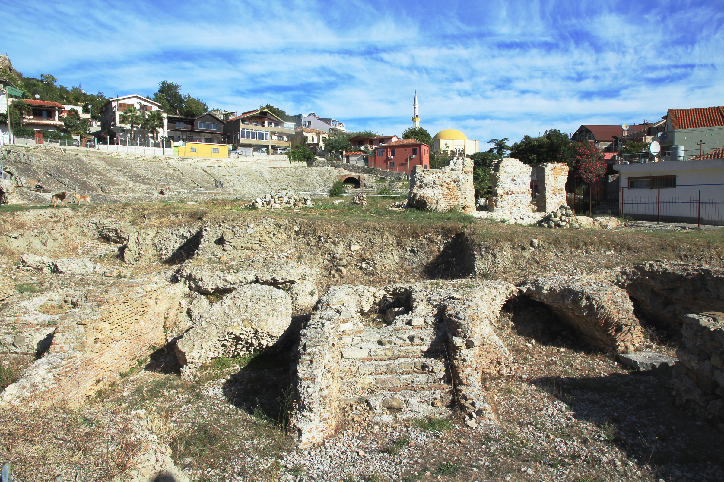 Ruins of old Roman Amphitheatre of Durrës in the center of the city Durrës, Albania, September 2018